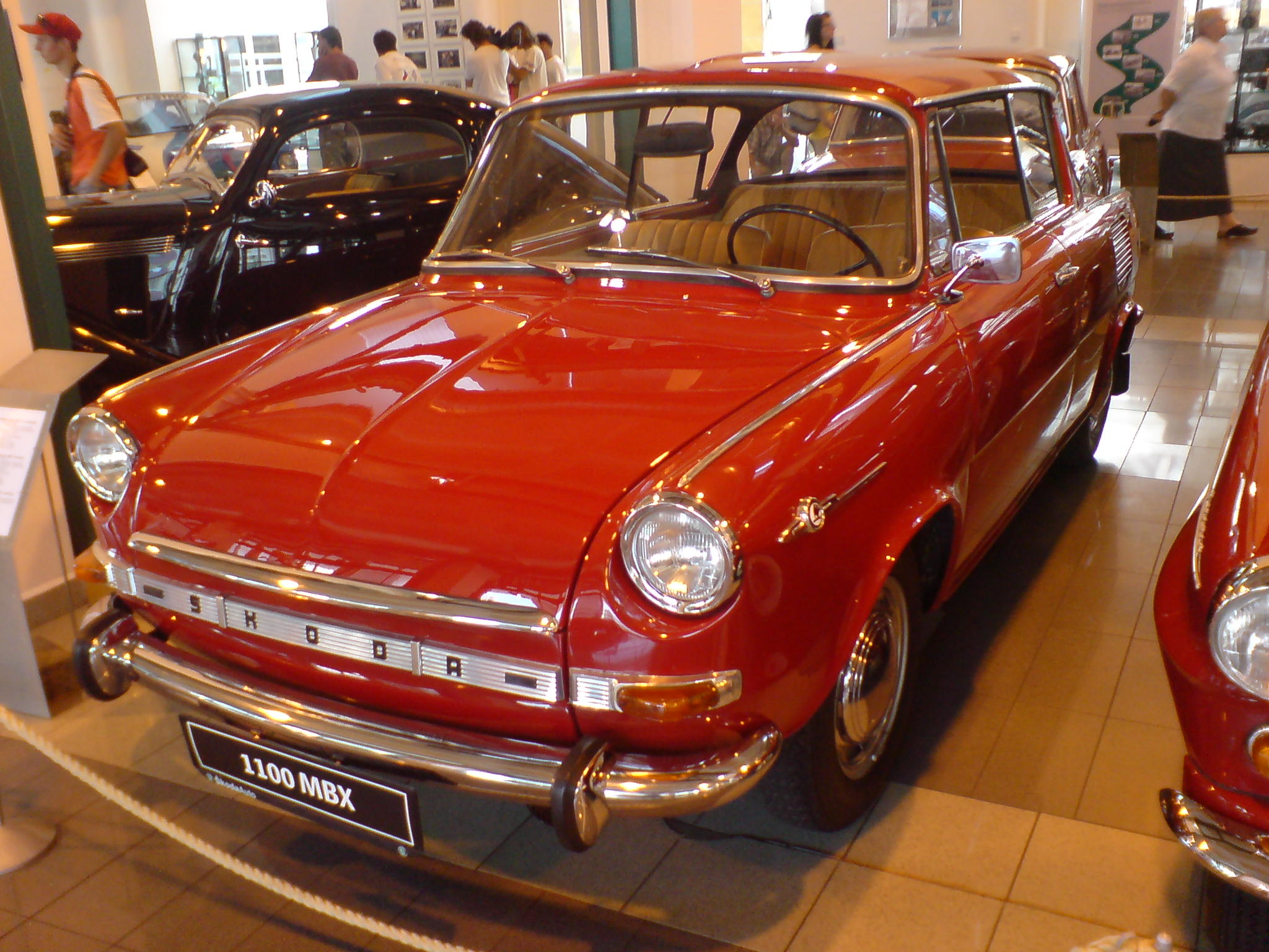 Škoda 1000 MBX in museum in Mladá Boleslav.